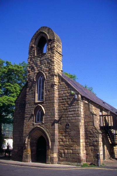 13th Century Chantry